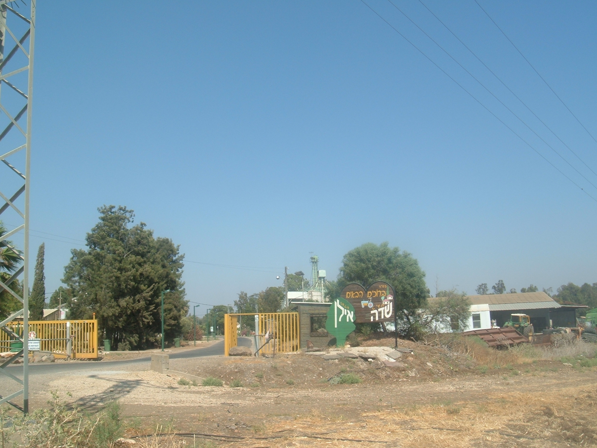 sde ilan, Israel מושב שדה אילן